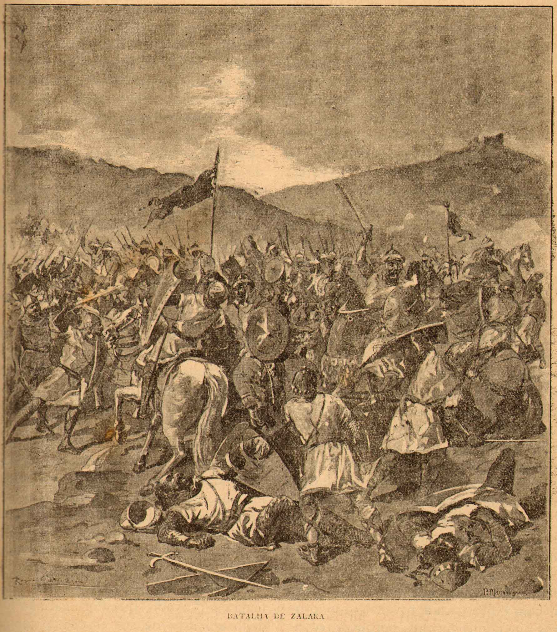 Illustration by Alfredo Roque Gameiro in the book História de Portugal, popular e ilustrada, by Manuel Pinheiro Chagas